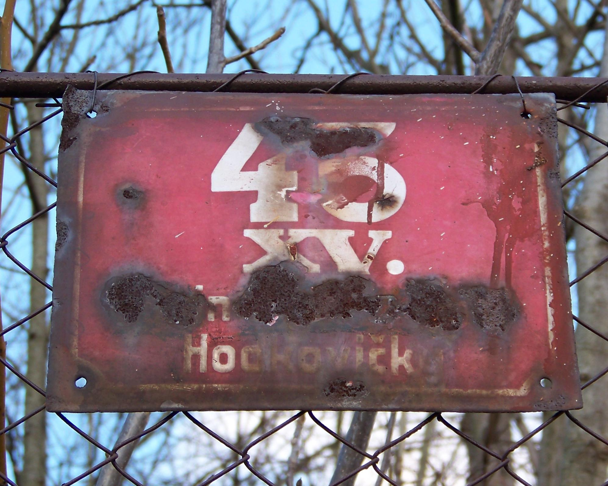 Prague-Hodkovičky, the Czech Republic. V mokřinách street, an old house number 45 (released German name Klein-Hodkowitz from period of Protectorate of Bohemia and Moravia).